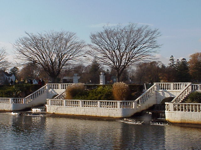 Argyle Lake Of Babylon, NY